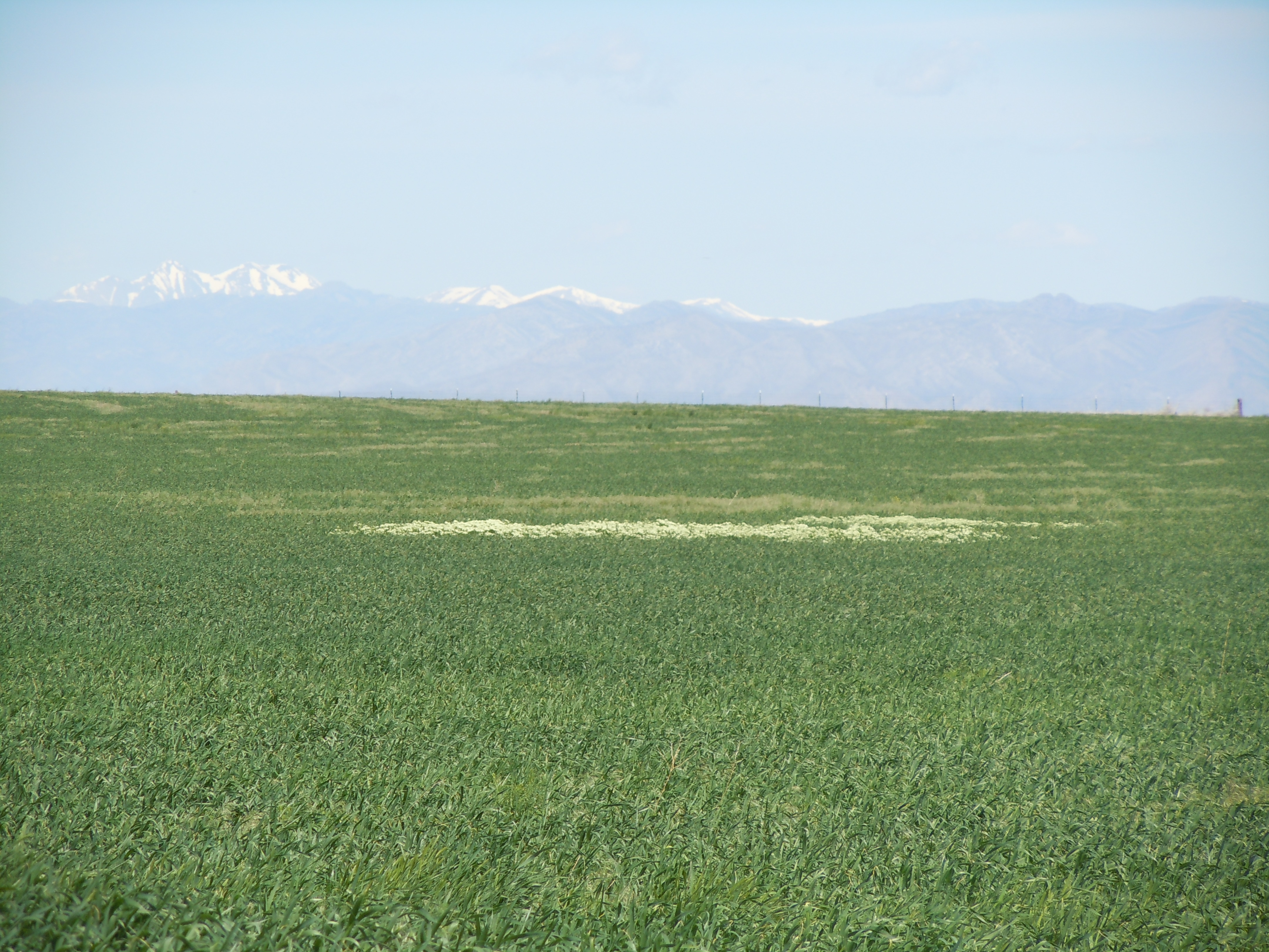 Hairy whitetop is found only roadside or in cultivated fields or overgrazed pastures adjacent to sagebrush steppe.